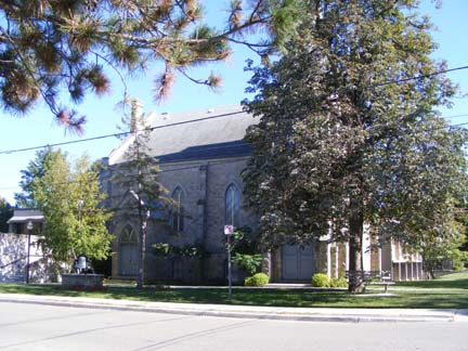 The Halton Hills Public Library Georgetown Branch